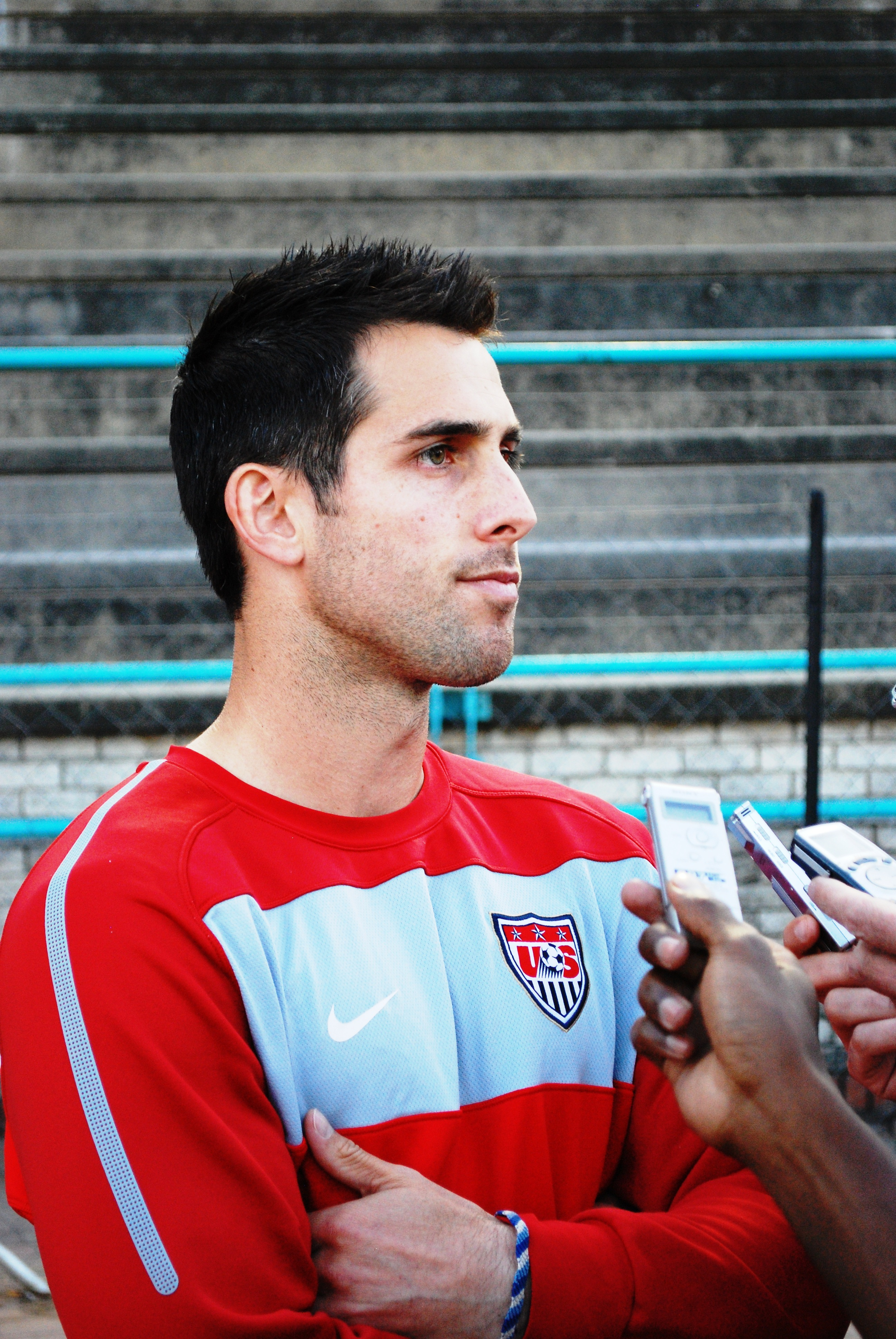 Team Captain Carlos Bocanegra takes questions from reporters at the U.S. National Soccer Team's open practice session with South African students and U.S. Mission to South Africa families at the Pilditch Stadium in Pretoria, South Africa, on June 6, 2010. The U.S. National Soccer Team is preparing for the 2010 World Cup in South Africa. [State Department Photo/Public Domain]